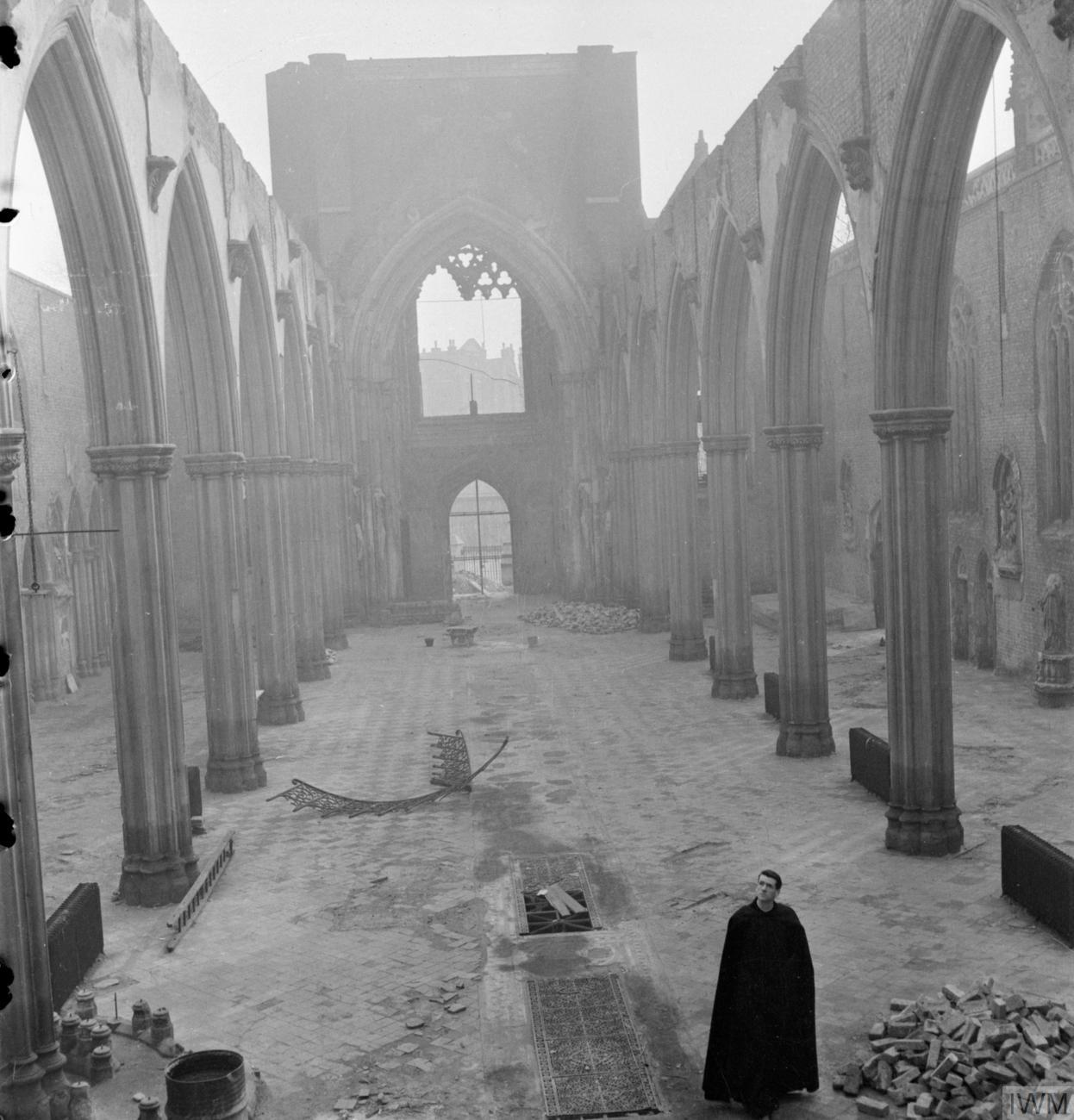 A Church Rises From the Ashes- Bomb Damage To St George's Cathedral, Southwark, 1942 A priest, probably Father Dixon, stands in the roofless shell of St George's Roman Catholic Cathedral, on the corner of St George's Road and Lambeth Road in Southwark, South East London. The Cathedral was severely damaged by an incendiary bomb attack which gutted the building on 16 April 1941. The photograph is taken from the altar end of the building, looking back down the nave towards the door.